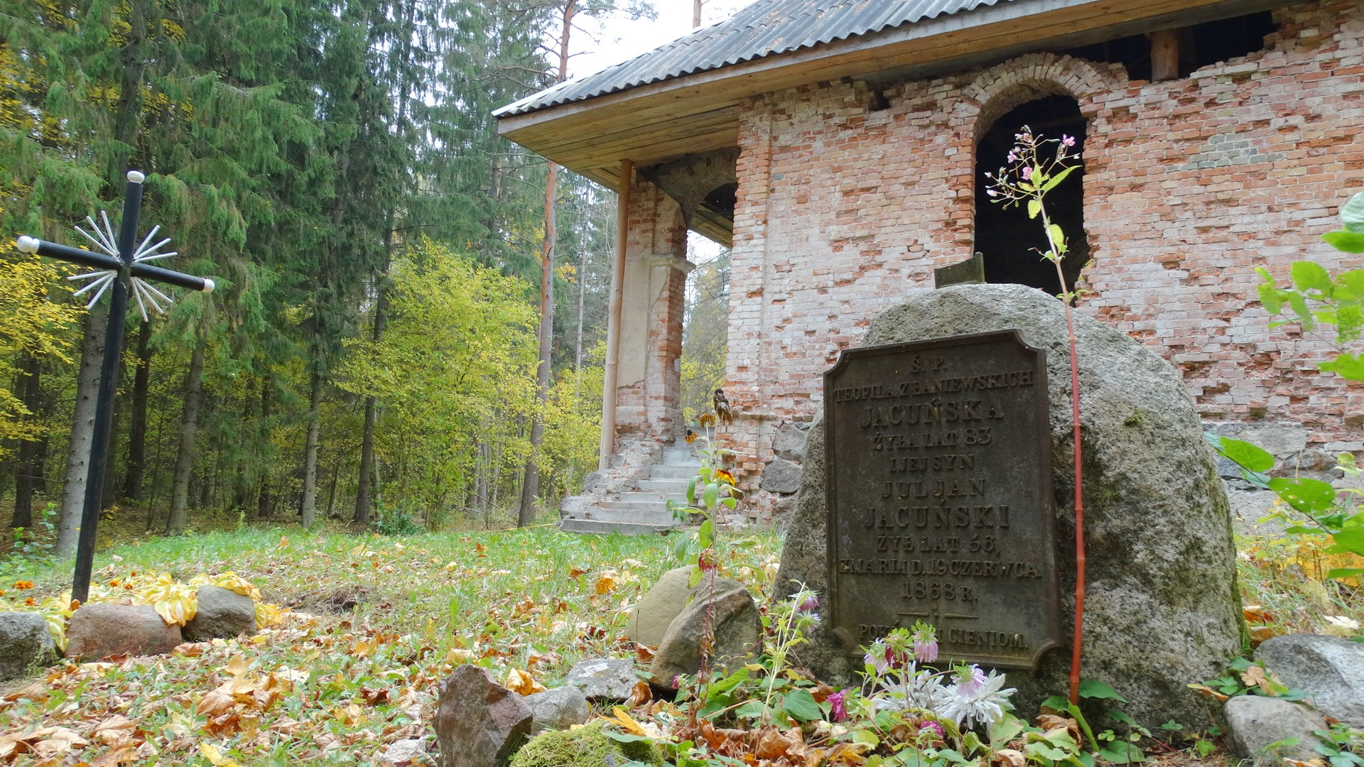 Chapel, Balkasodis, Alytus district, Lithuania